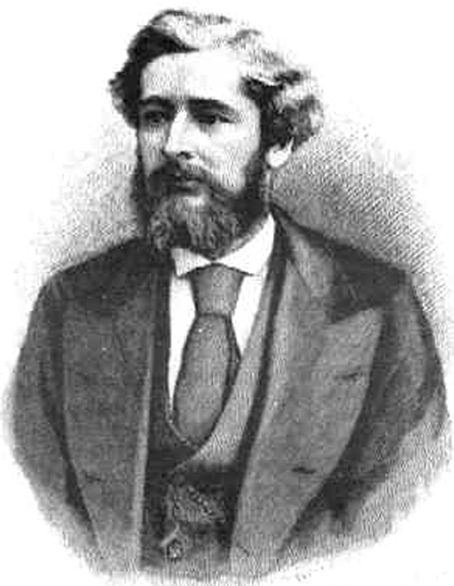 Portrait of John Edwin Cussans.